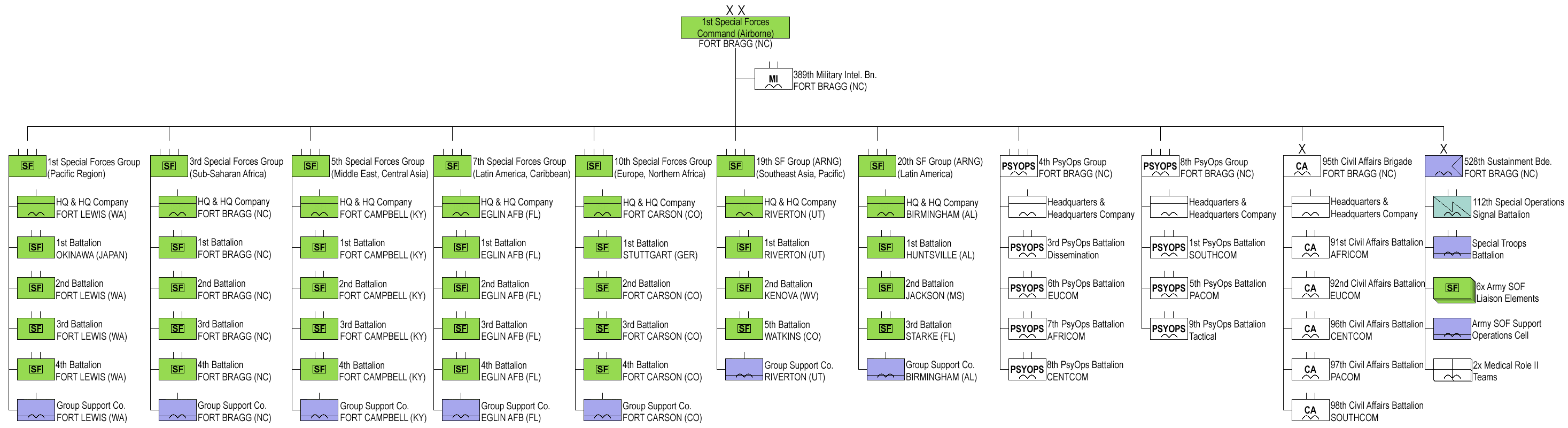 US Army 1st Special Forces Command (Airborne) Structure - April 2020